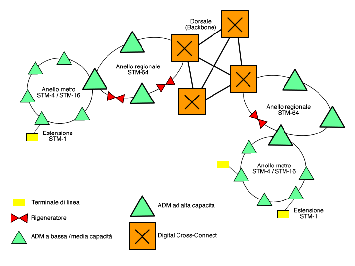 Typical scheme of a generic SDH network